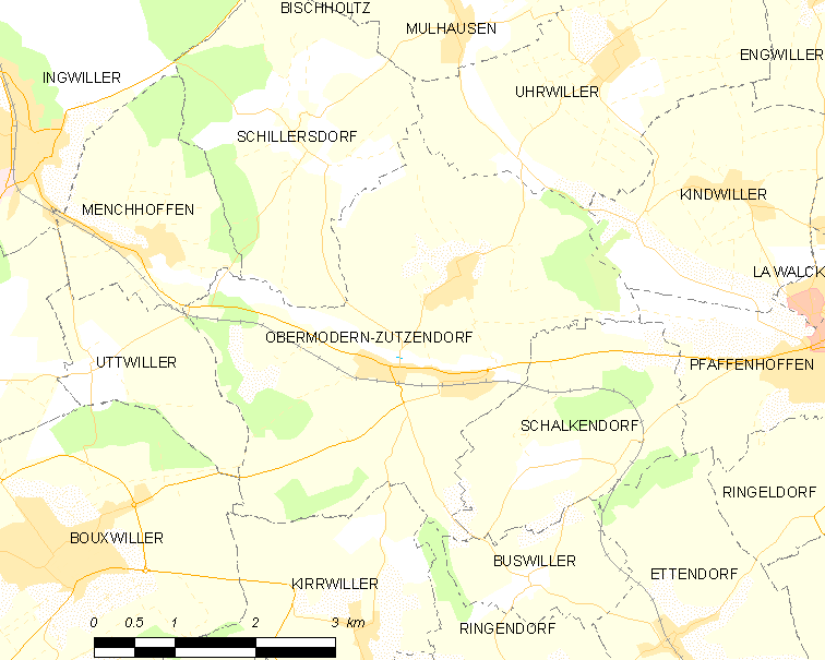 Map of French municipality